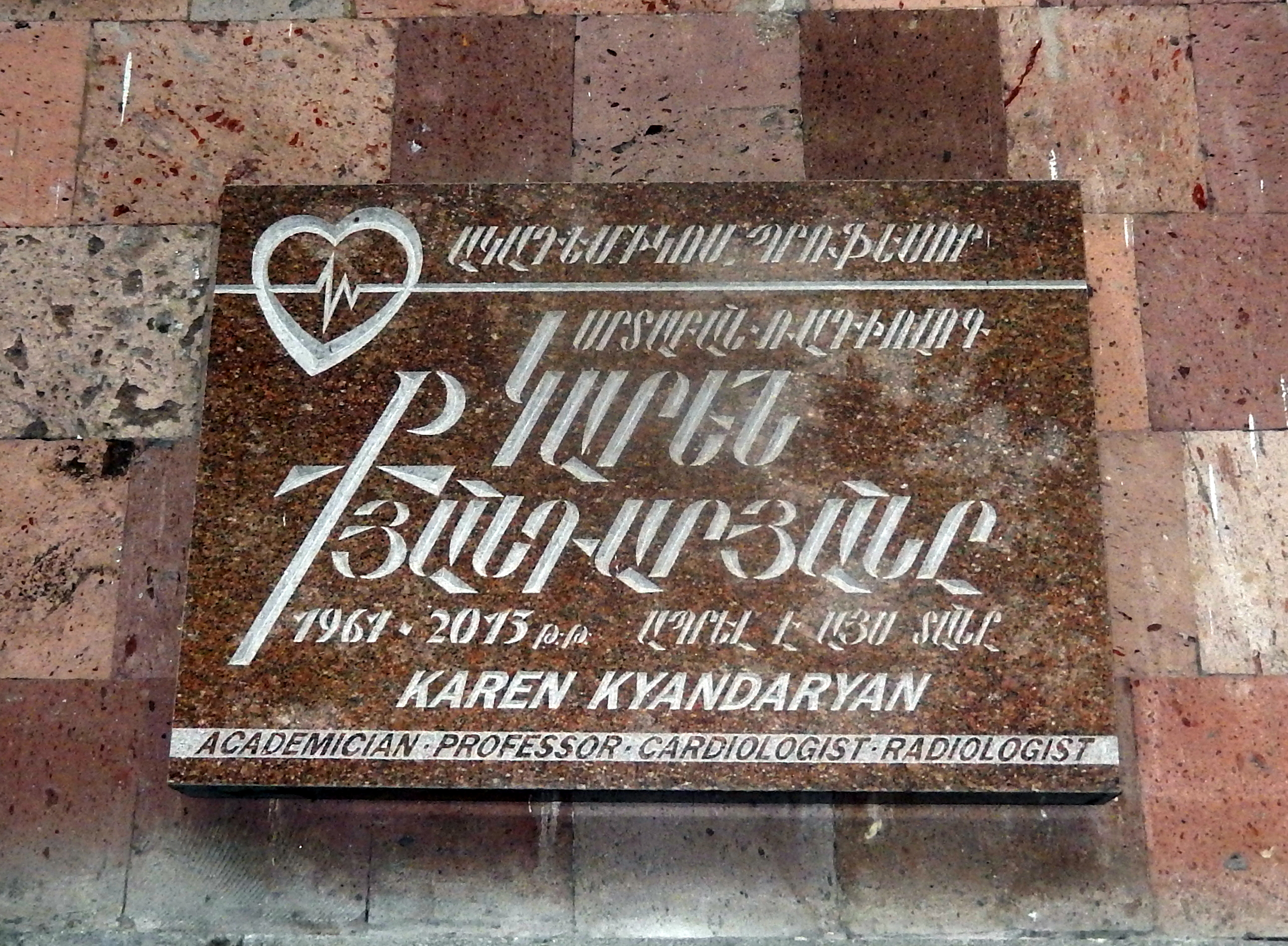 Plaque of Karen Kyandaryan on Komitas Avenue, Yerevan